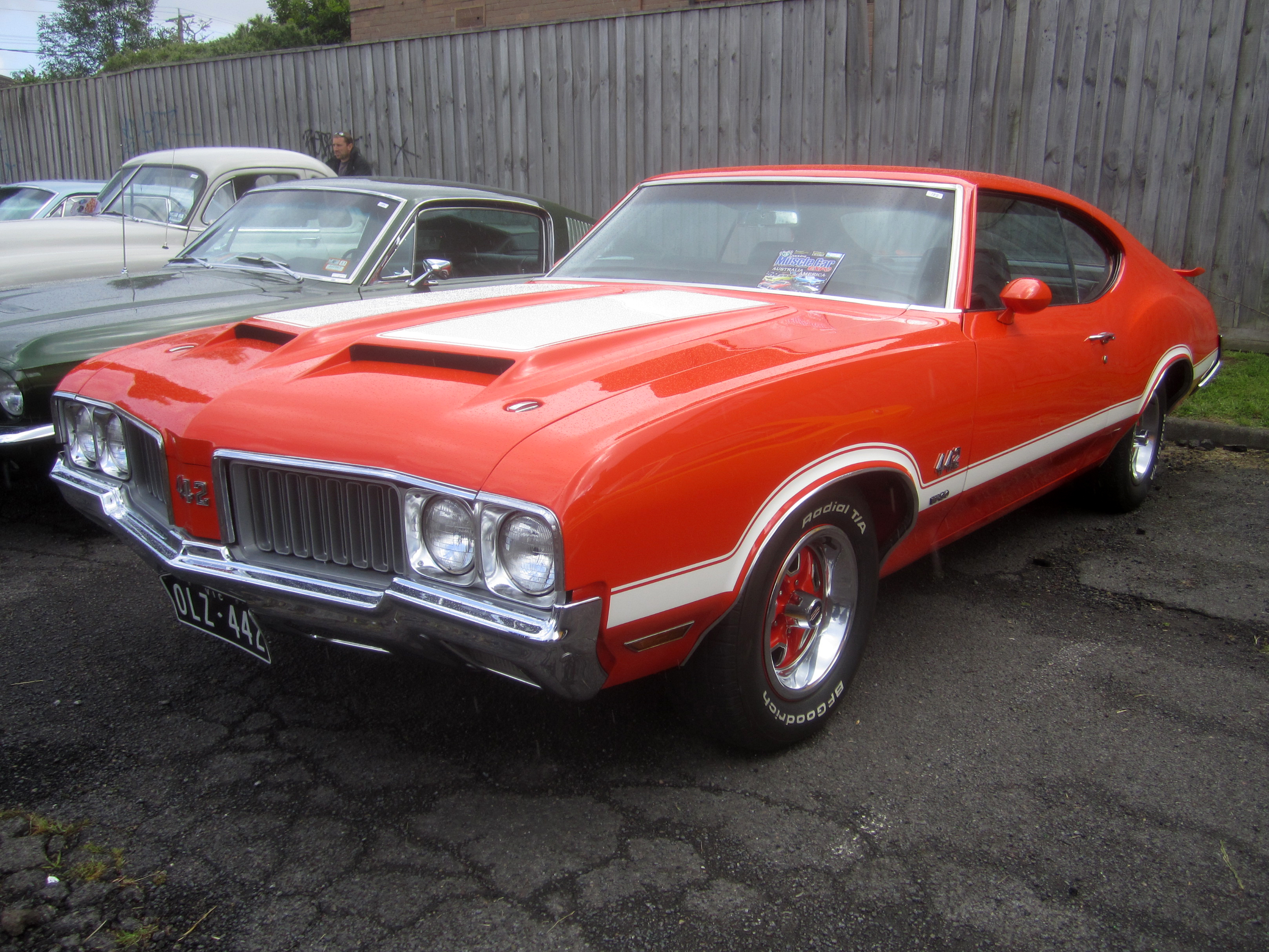 The 1970 Cutlass was available in seven body styles: the base F-85 2 and 4 door Sedan, 4 door Hardtop, Convertible and Wagon, as well as two-door hardtops offered in both notchback Cutlass Supreme and fastback Cutlass S and 442 (the ultimate Oldsmobile muscle car) Starting in 1964, the 442 was a performance option package available on the F-85 and Cutlass fastback. 1970 was the pinnacle of performance, the 400 increased to 455 cu in, it came standard with 365bhp. but like this car, the W30 was an extra option on that, it got fiberglass Ram Air hood (option W25) with functional air scoops and low-restriction air cleaner, aluminum intake manifold, special camshaft, cylinder heads, distributor, and carburetor Engine; 370bhp 455 V8 A 1970 Oldsmobile 442 was featured in the chase scene of the movie Demolition Man starring Sylvester Stallone.